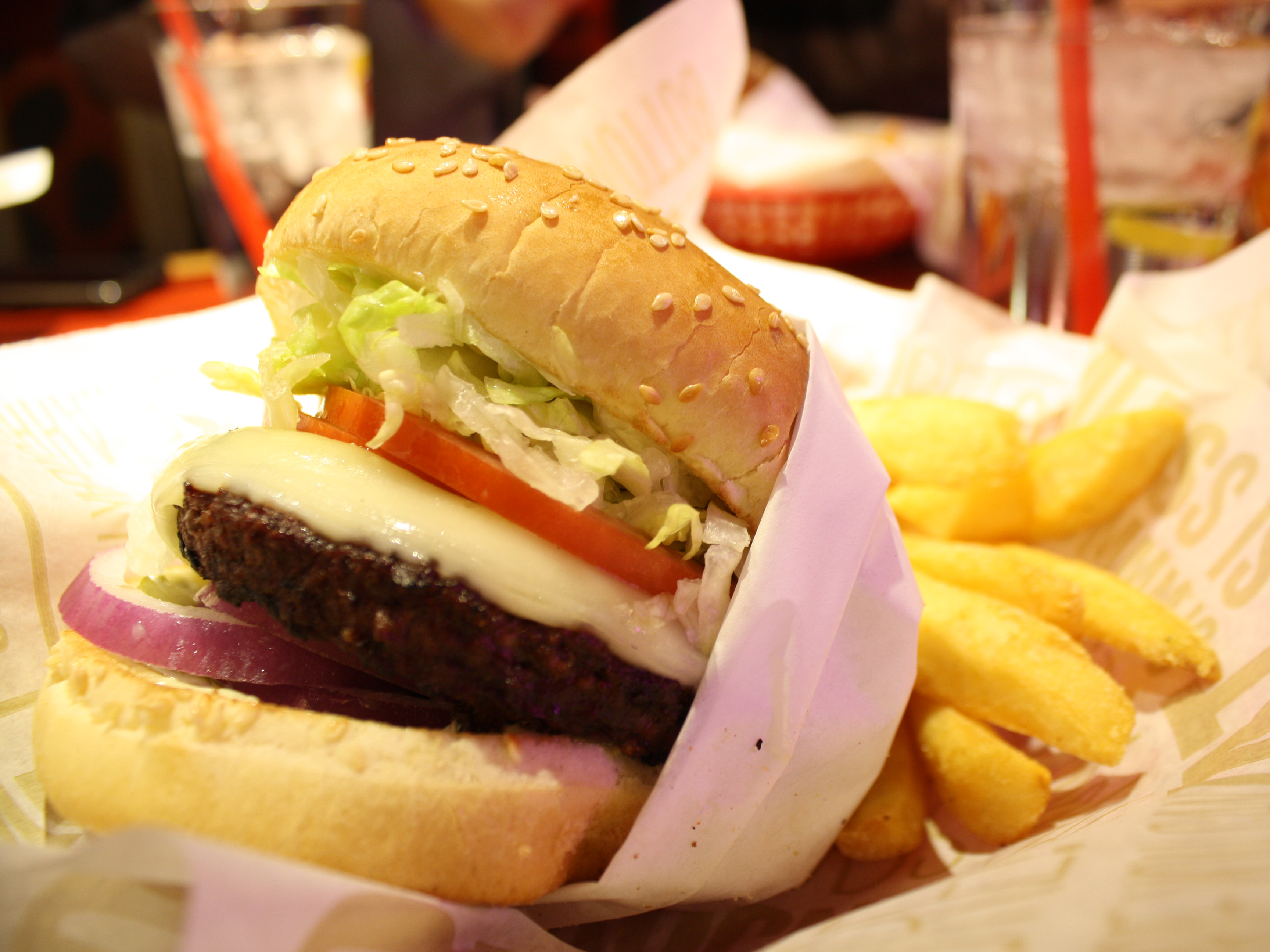 A burger with fries from Red Robin Gourmet Burgers